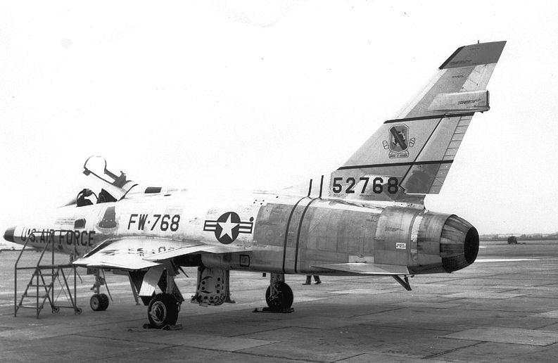 509th Tactical Fighter Squadron - North American F-100D-40-NH Super Sabre - 55-2768